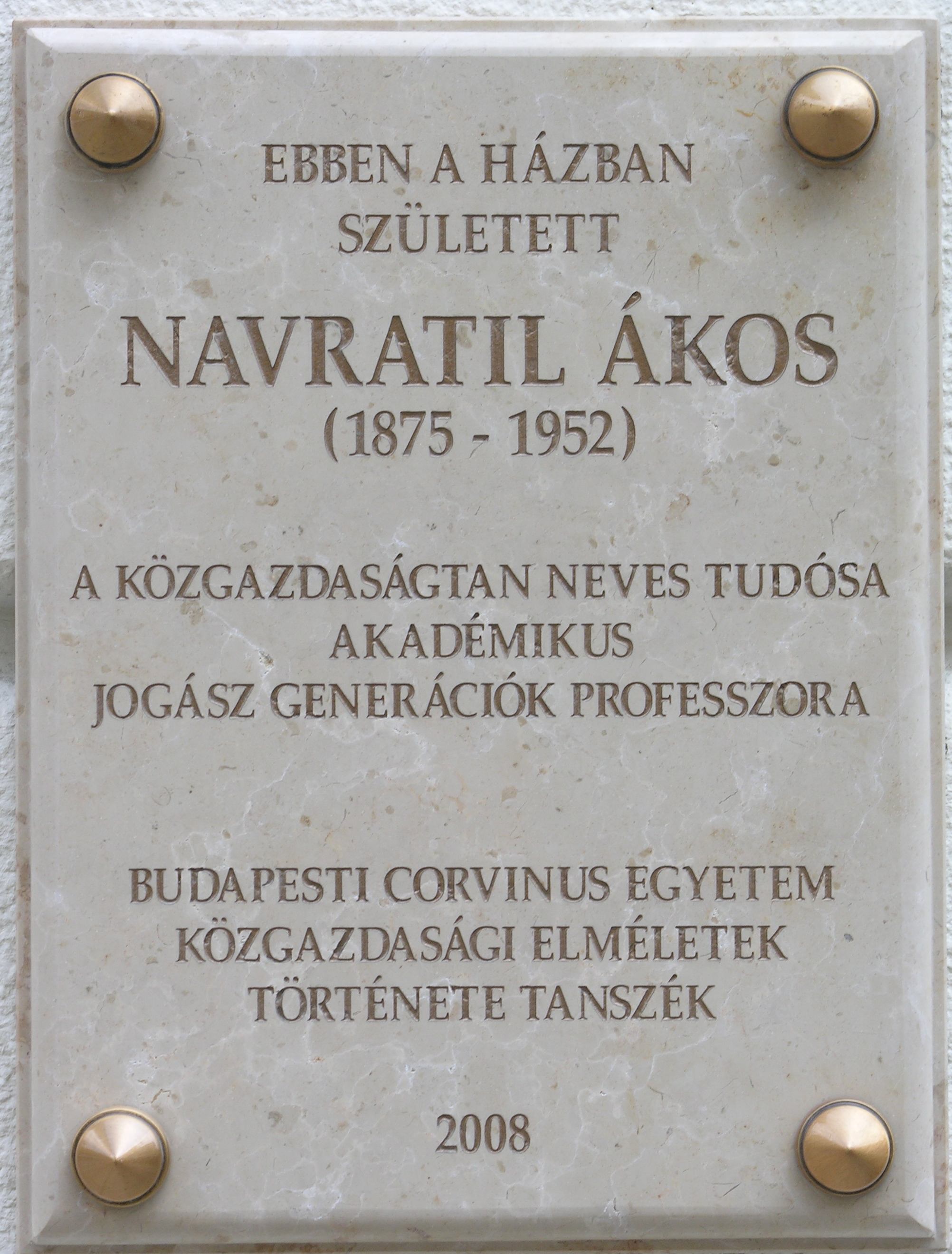 Commemorative plaque of Ákos Navratil in Budapest District V, Dorottya Street No 1